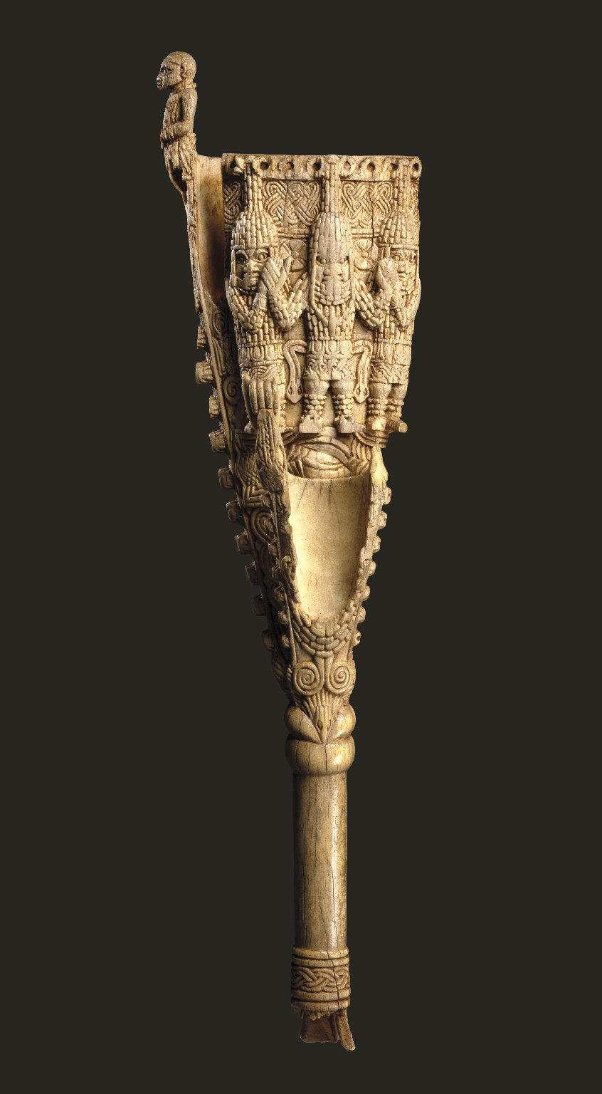 Two bell forms on a long handle; large bell carved eith 3 figures: chief standing with arms upheld by attendants; background is elaborately carved with curved interlocking pattern, small bells or facsimiles of same run-up sides of sisturn and along top; one side of top has projecting human figure, on top of small bell is an alligator head holding a human hand. Base is geometrically carved. Large bell originally showed mudfish figure and snake-wing bird. Condition: Back of large bell broken. A second projecting figure broken off. Crack down front of large bell with a small upper section missing. Small bell has front broken off. Bottom broken in small area.